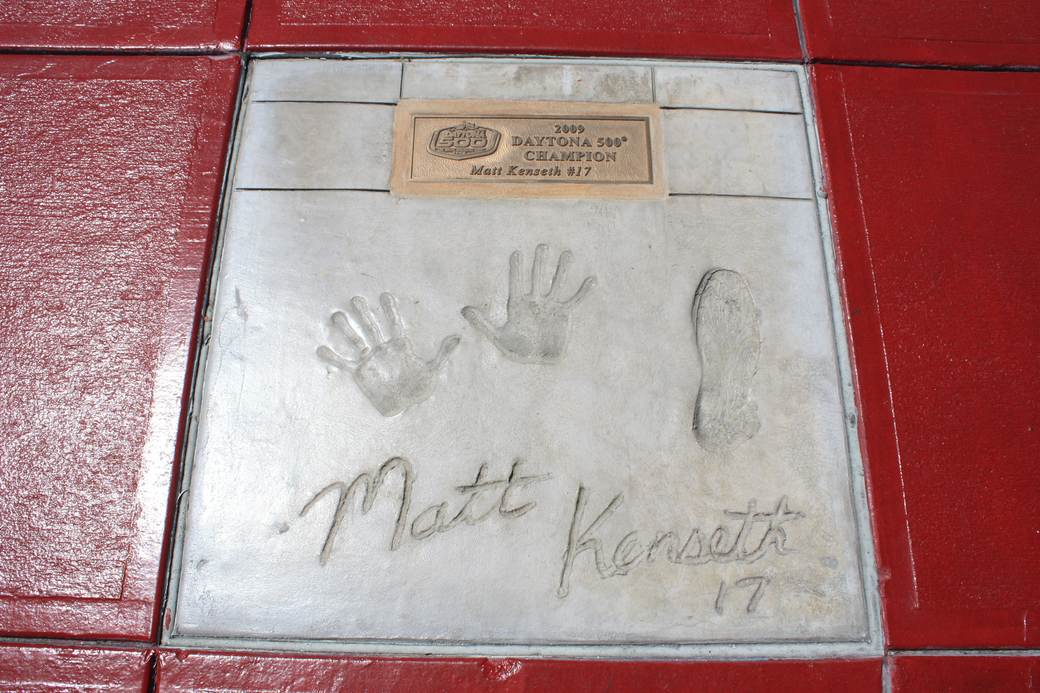 Matt Kenseth imprints.